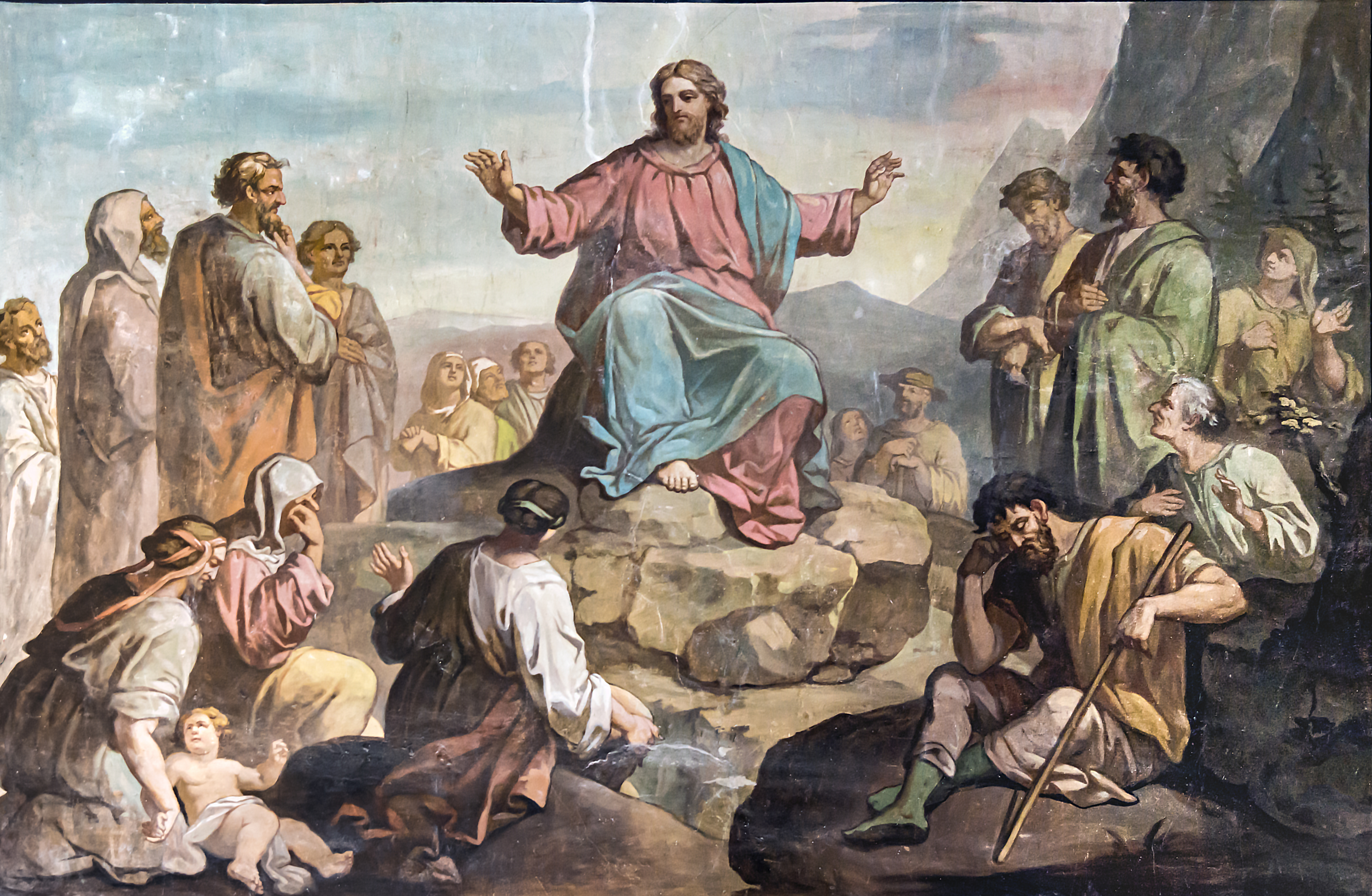 Castelnau-d'Estrétefonds. St. Martin Church - The Sermon on the Mountain by Arsène Robert (1830-1895) Prix de Rome - third of the five monumental paintings of the choir. The Sermon on the Mount is a biblical scene from the New Testament. The painting is strongly inspired by a painting from the cycle of the life of Saint Jacques, painted around 1760 by Charles Joseph Natoire, for the church of Saint-Jacques-de-Villegoudou in Castres (81).